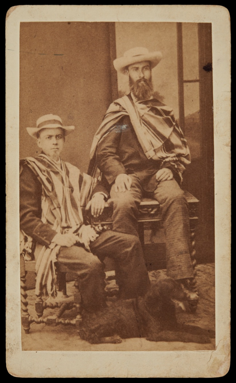 J. Sztolcman on the left sitting on a chair, next to the table J. Siemiradzki On the reverse of the description of J. Sztolcmana with a pen: Sztolcman and Siemiradzki (at the legs of a dog Sztolcmana "Dżok", who has made all the trips with the same 1877 to 1884). Photograph from Guayaquil (Ecuador). 1883 Underneath an unknown hand partly with a pen: By the way, you [...?]. Below is a description with a pencil: from the collection of Józef Kobylański